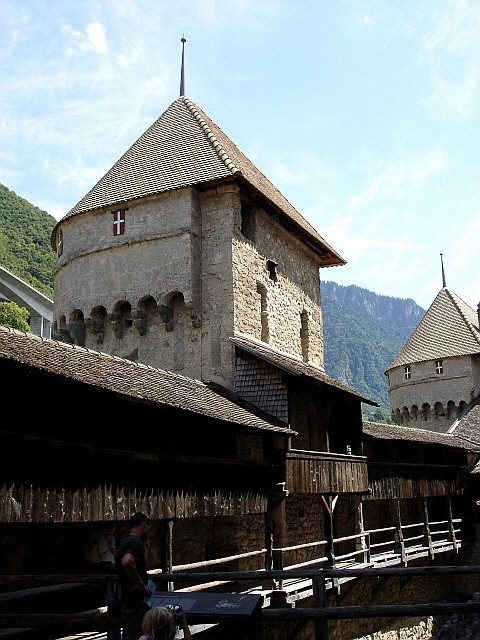 Chillon